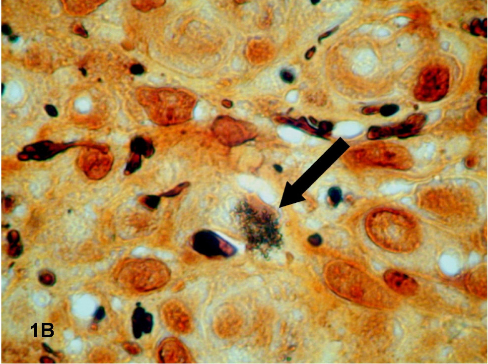 Clusters of bacteria (indicated by an arrow) shown on Warthin–Starry staining.